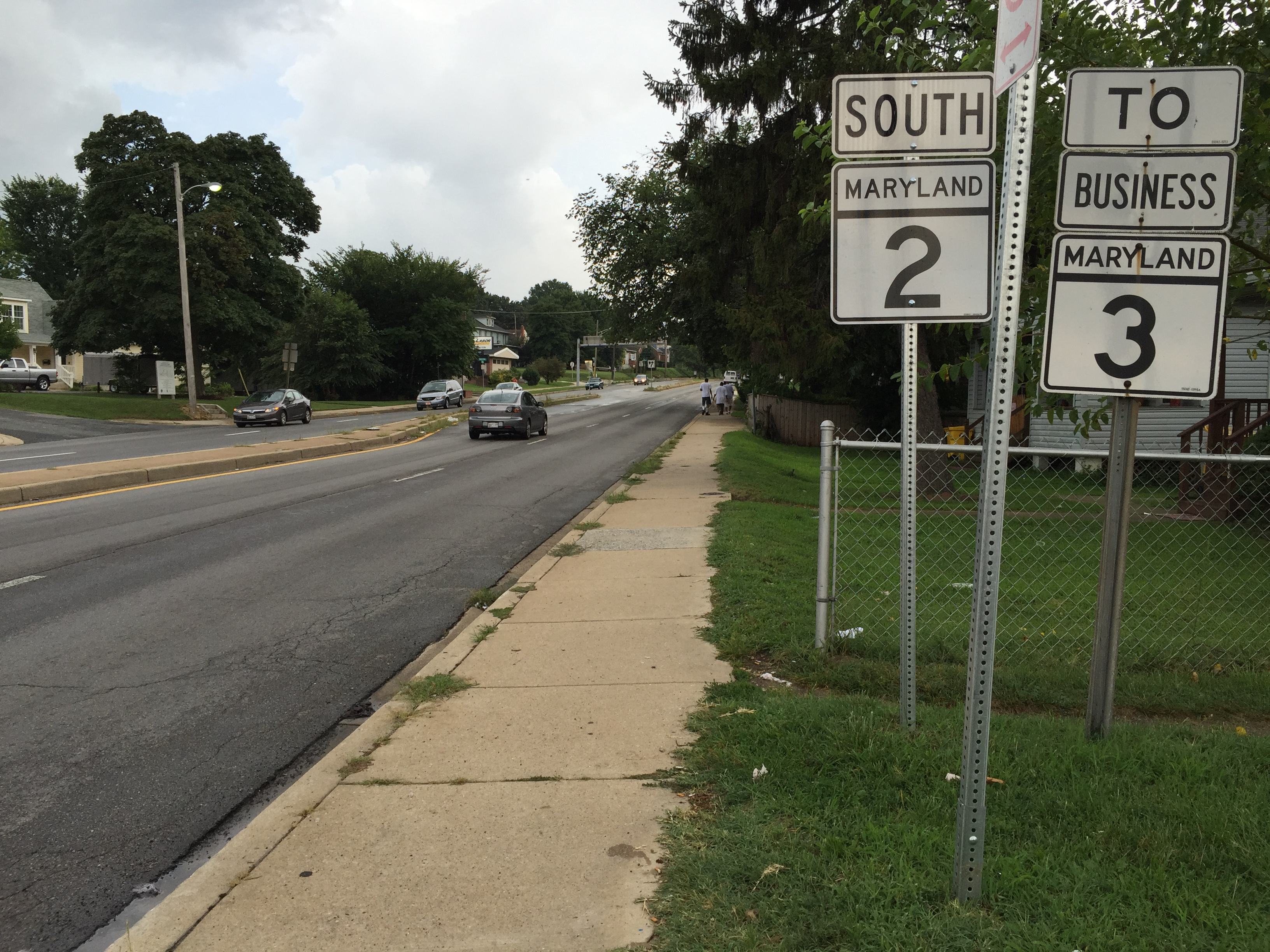 View south along Maryland State Route 2 (Governor Ritchie Highway) at Maryland State Route 170 (Belle Grove Road) in Brooklyn Park, Anne Arundel County, Maryland